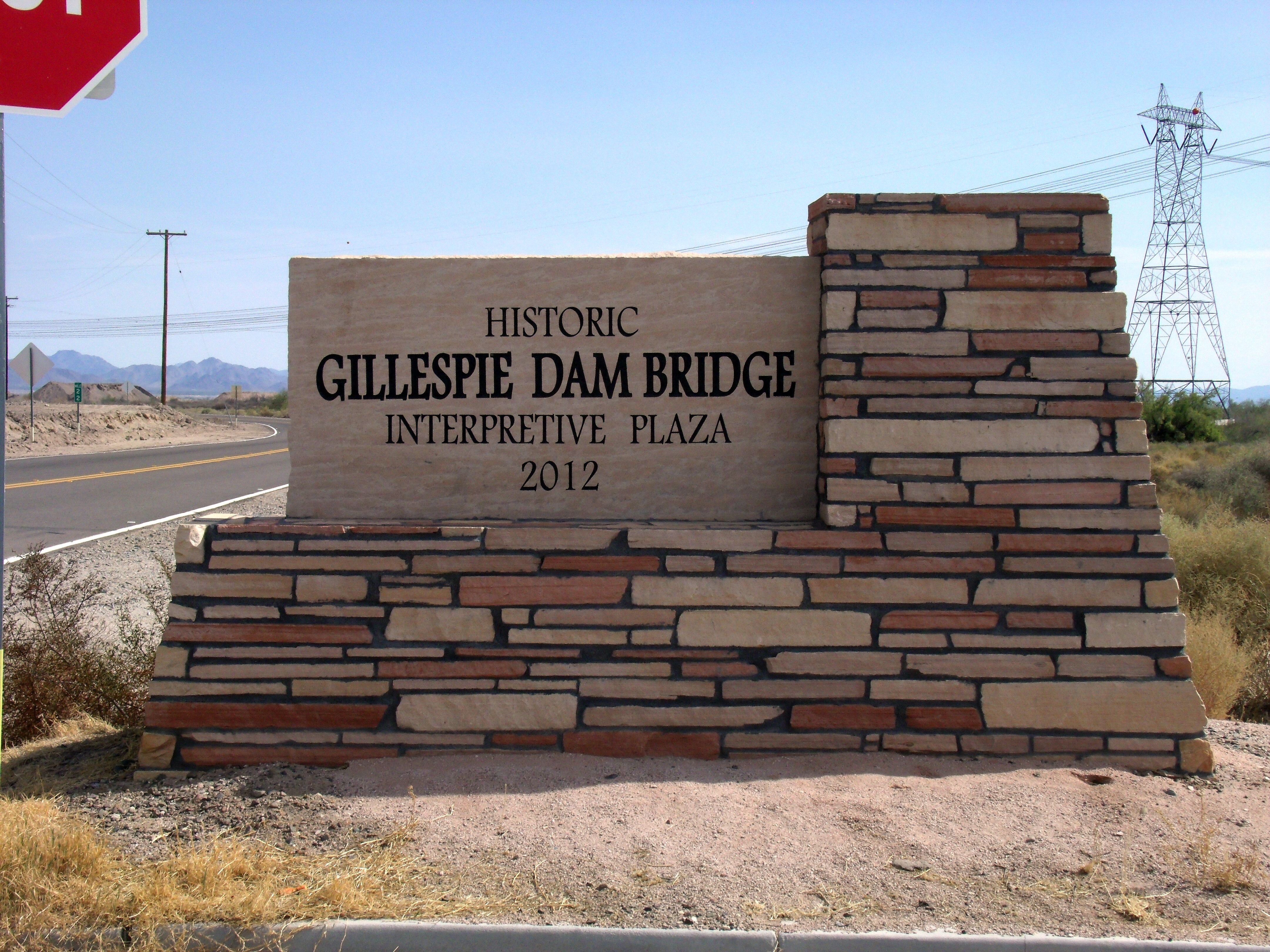 The historic Gillespie Dam Bridge marker. The historic Gillespie Dam Bridge was built in 1927 over the Gila River and is located on Old Highway 80 north of Gila Bend and south of Arlington between the Buckeye Hills and the Gila Bend Mountains in Maricopa County. The bridge was at the time the longest highway bridge in the state of Arizona. The bridge was listed on the National Register of Historic Places on May 5, 1981, reference #81000136